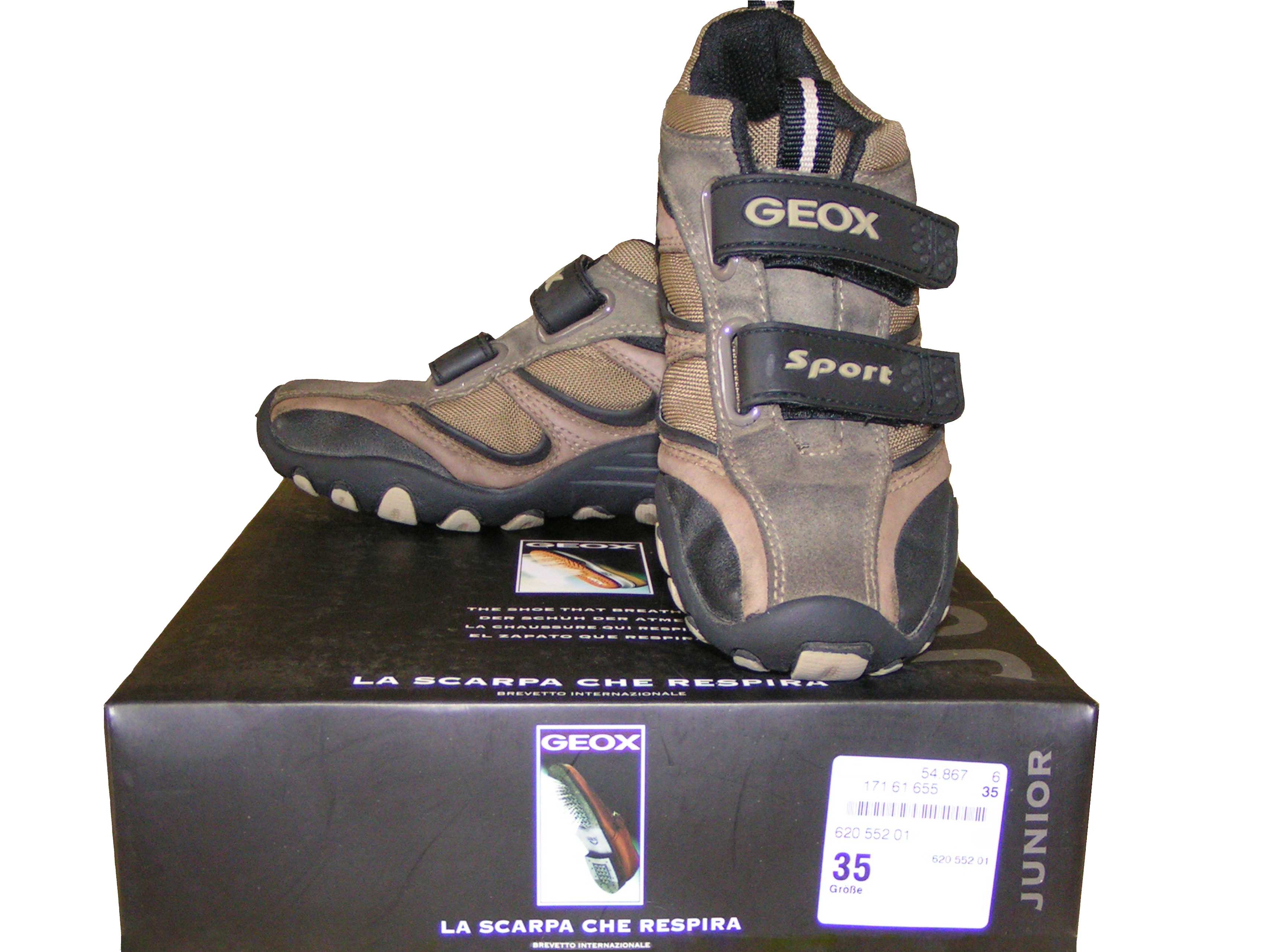 Shoes